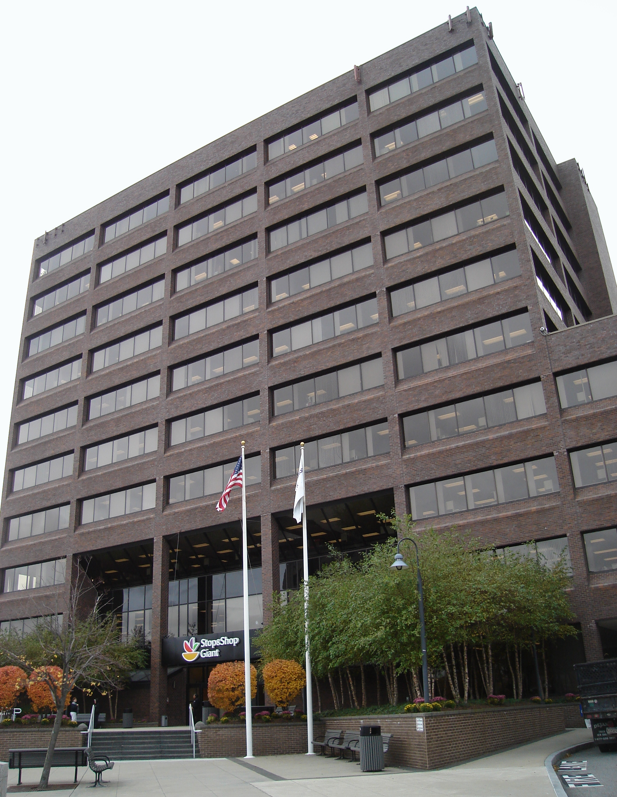 Stop & Shop headquarters building, which also houses Ahold USA offices, in Quincy, Massachusetts.